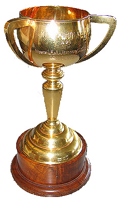 76 th melbourne cup carnival Photo taken for Moriori by Moriori's son and released into the public domain